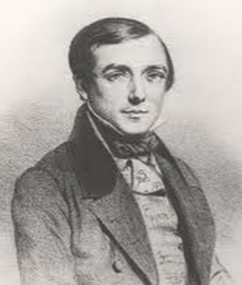 Charles Duveyrier-French librettist